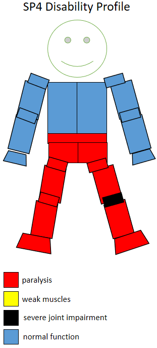 Shows F4 SP4 disability sports profile. Created using information from